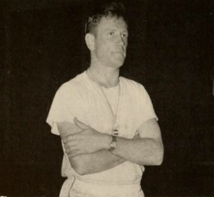 Hampden-Sydney College basketball coach Billy McCann from the 1951 “Kaleidoscope” yearbook.